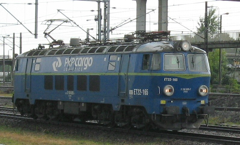 ET22-165 locomotive of PK cargo at Warsaw-Praga